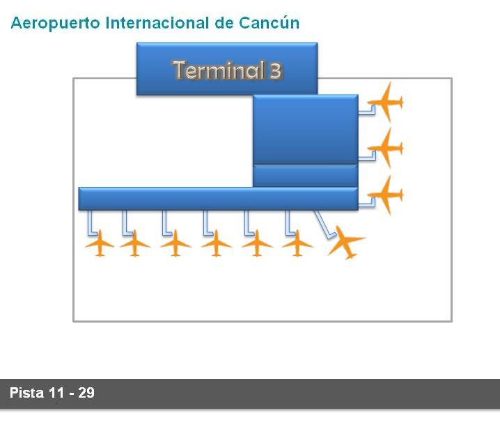 Cancun Terminal 3 Layout.